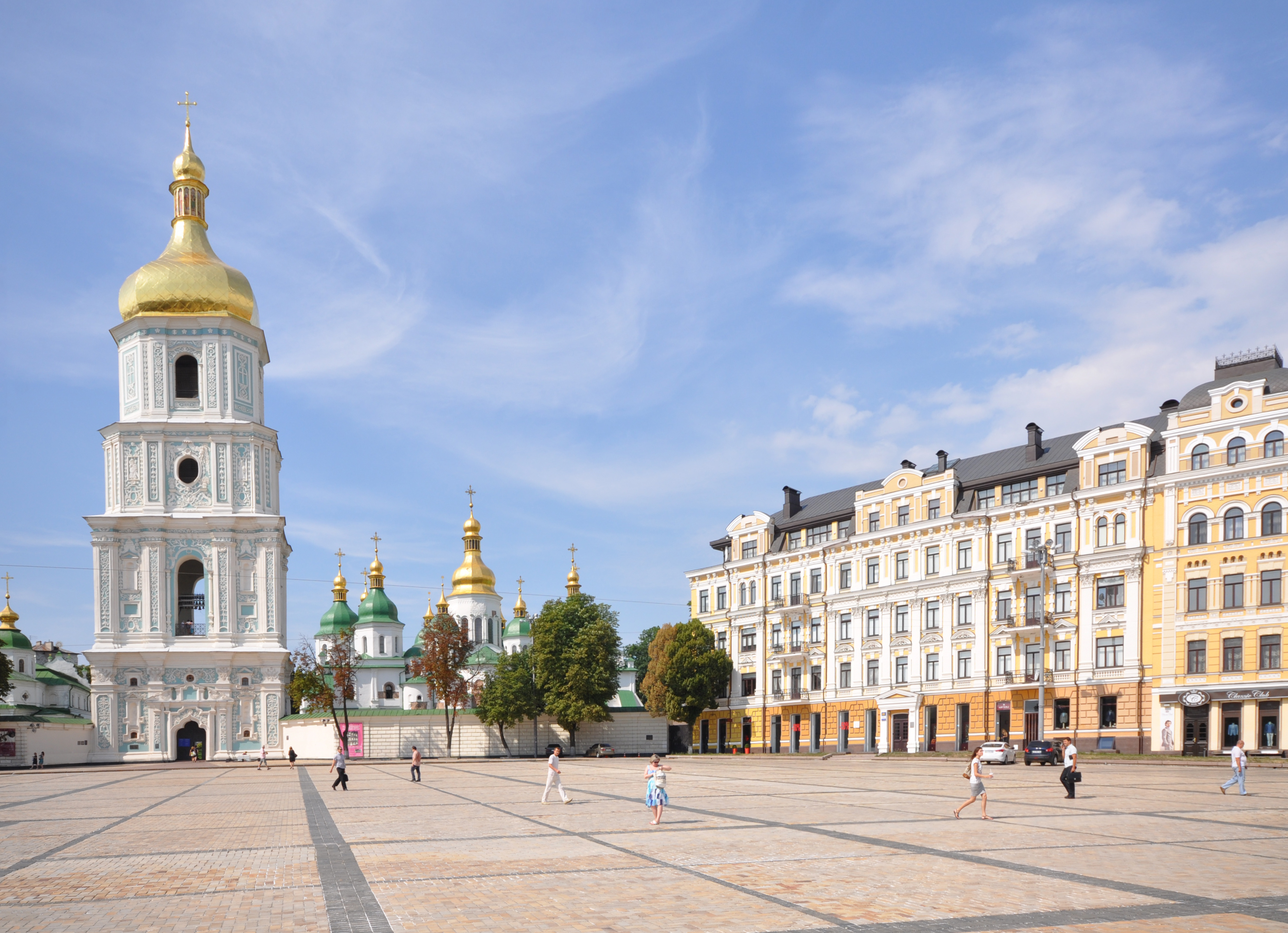 Saint Sophia Cathedral is a cathedral temple of Kiev Metropolis (Ecumenical Patriarchate of Constantinople) in 1037-1299 and second one after the Church of the Tithes. Today, it is an outstanding architectural monument of Kievan Rus' and a multi-structural complex-museum. The cathedral is one of the city's best known landmarks and the first patrimony on territory of Ukraine to be inscribed on the World Heritage List along with the Kiev Cave Monastery complex. Aside from its main building, the cathedral includes an ensemble of supporting structures such as a bell tower, the House of Metropolitan, and others. In 2011 the historic site was reassigned from the jurisdiction of the Ministry of Regional Development of Ukraine to the Ministry of Culture of Ukraine. One of the reasons for that move was the fact that both "Sofia Kyivska" and Kiev Pechersk Lavra are recognized by the UNESCO World Heritage Program as one complex, while in Ukraine the two were governed by different government entities. In Ukrainian the cathedral is known as Sobor Sviatoyi Sofiyi (Собор Святої Софії) or Sofiyskyi sobor (Софійський собор). In Russian it is known as Sobor Svyatoi Sofii (Собор Святой Софии) or Sofiyskiy sobor (Софийский собор). The complex of the Cathedral is the main component and museum of the National Preserve "Sophia of Kiev" which is the state institution responsible for the preservation of the Cathedral complex as well as four other historic landmarks across the nation